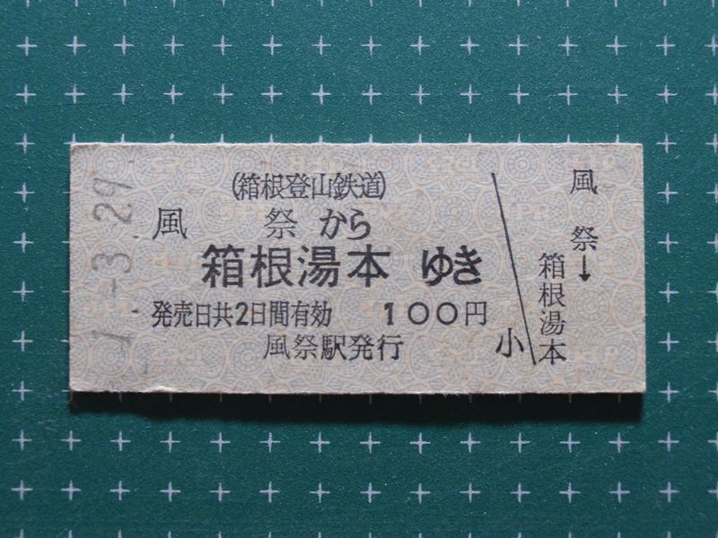 Ticket from Kazamatsuri to Yumoto.